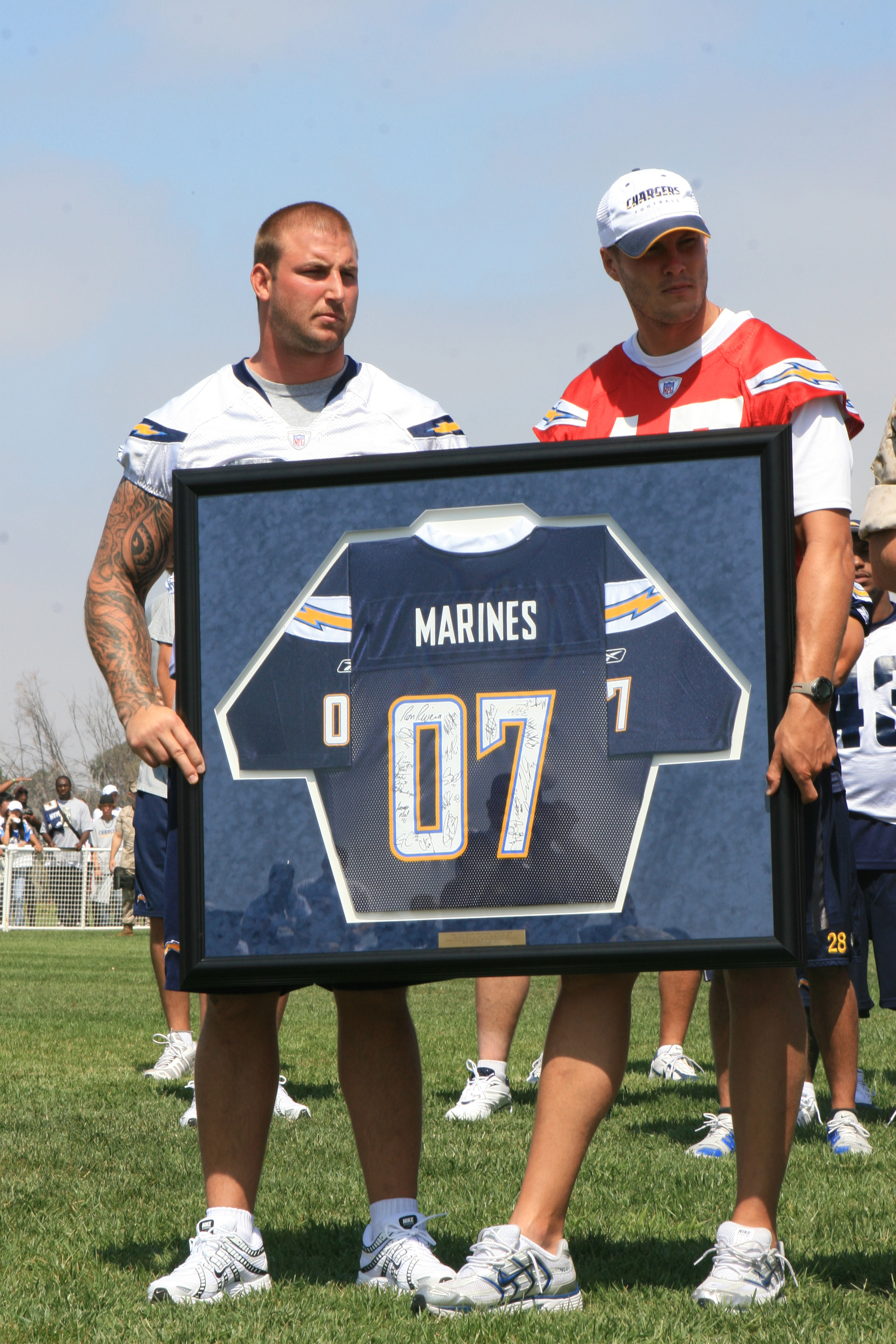 San Diego Chargers, Phillip Rivers, starting quarterback and Nick Hardwick, the starting center stand holding a special Chargers jersey that is being presented to the commanding officer of Marine Corps Air Station Miramar, Calif., Aug. 11. The team was at the station for a military appreciation event.